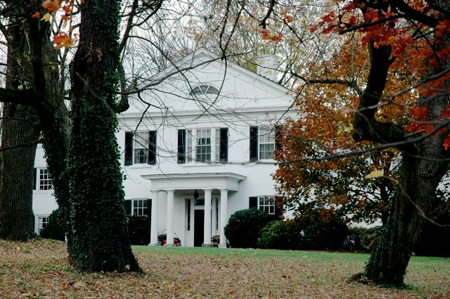 Happy Retreat, home of Charles Washington (brother of George Washington), Charles Town, West Virginia, USA